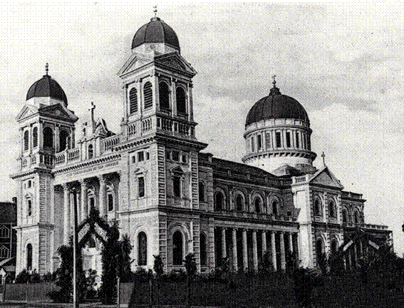 Cathedral of the Blessed Sacrament, Christchurch, New Zealand. Public domain by virtue of age